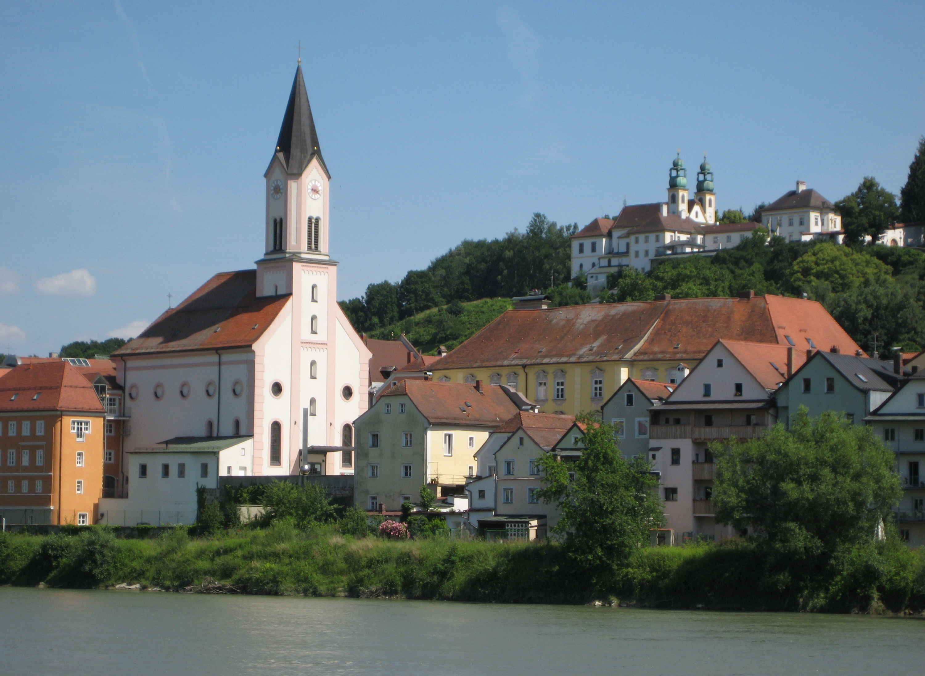 Church St. Gertraud and pilgrimage church Mariahilf in Passau